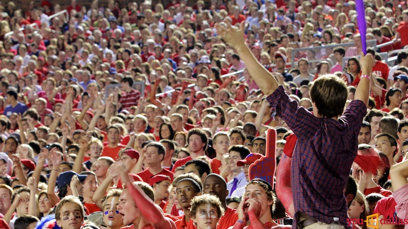 You+Pics: SMU Mustang Student Spirit in Dallas, Texas just before the SMU v. TCU Game - 09.24.2010. All trademarks are the property of their respective owners. More pics from this event can be found at You+Dallas in the Park Cities Neighborhood section ( All trademarks are the property of their respective owners. All photos provided with a creative commons share-alike license. Use freely for commercial or non-profit use but give attribution to "giovanni gallucci, You+Dallas - Park Cities" and link to